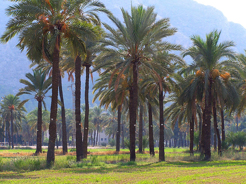 Phoenix dactylifera date palms in Orihuela, the Valencian Community—"Land of Valencia", eastern Spain.